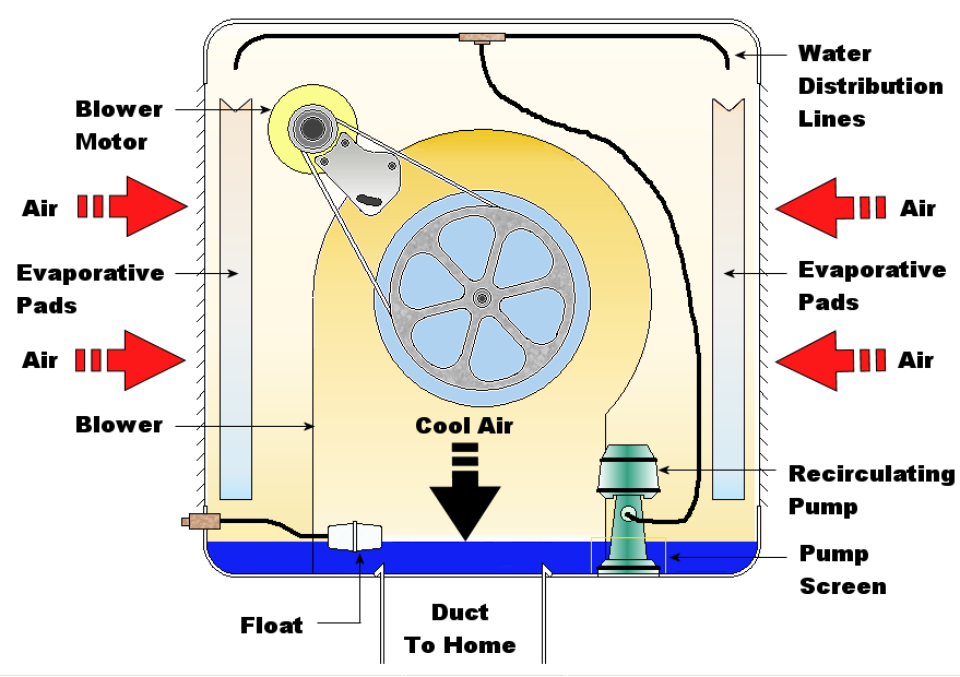 Swamp cooler illustration, made by User:Buster2058. Released to the Public Domain.